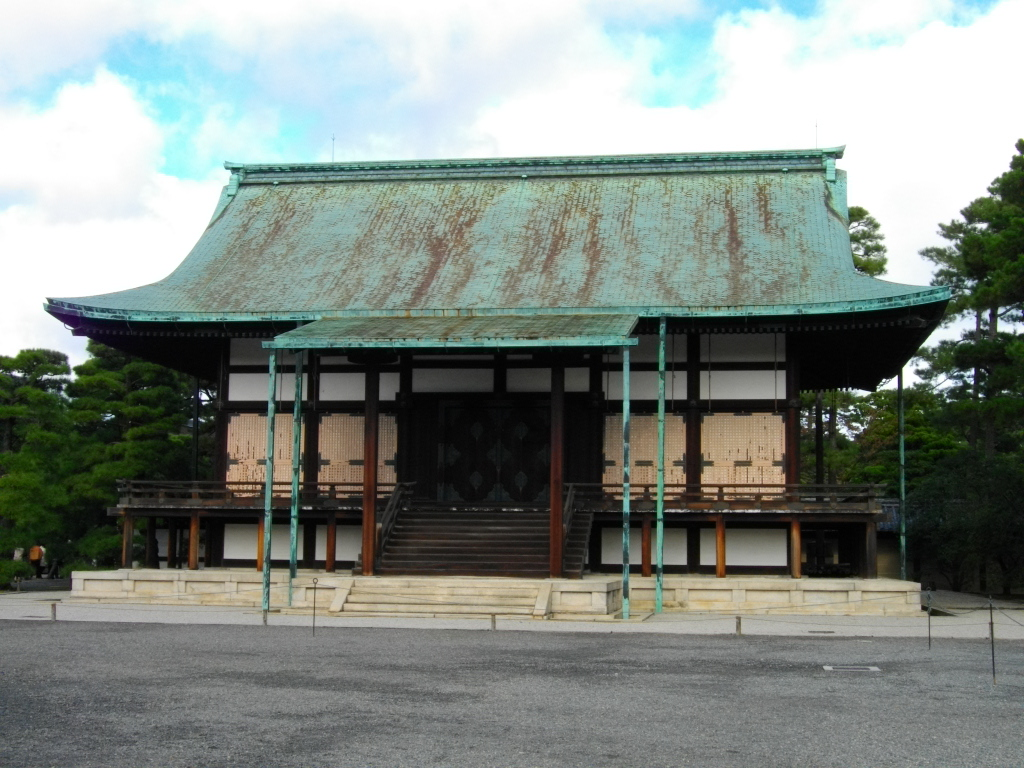 Shunko-Den